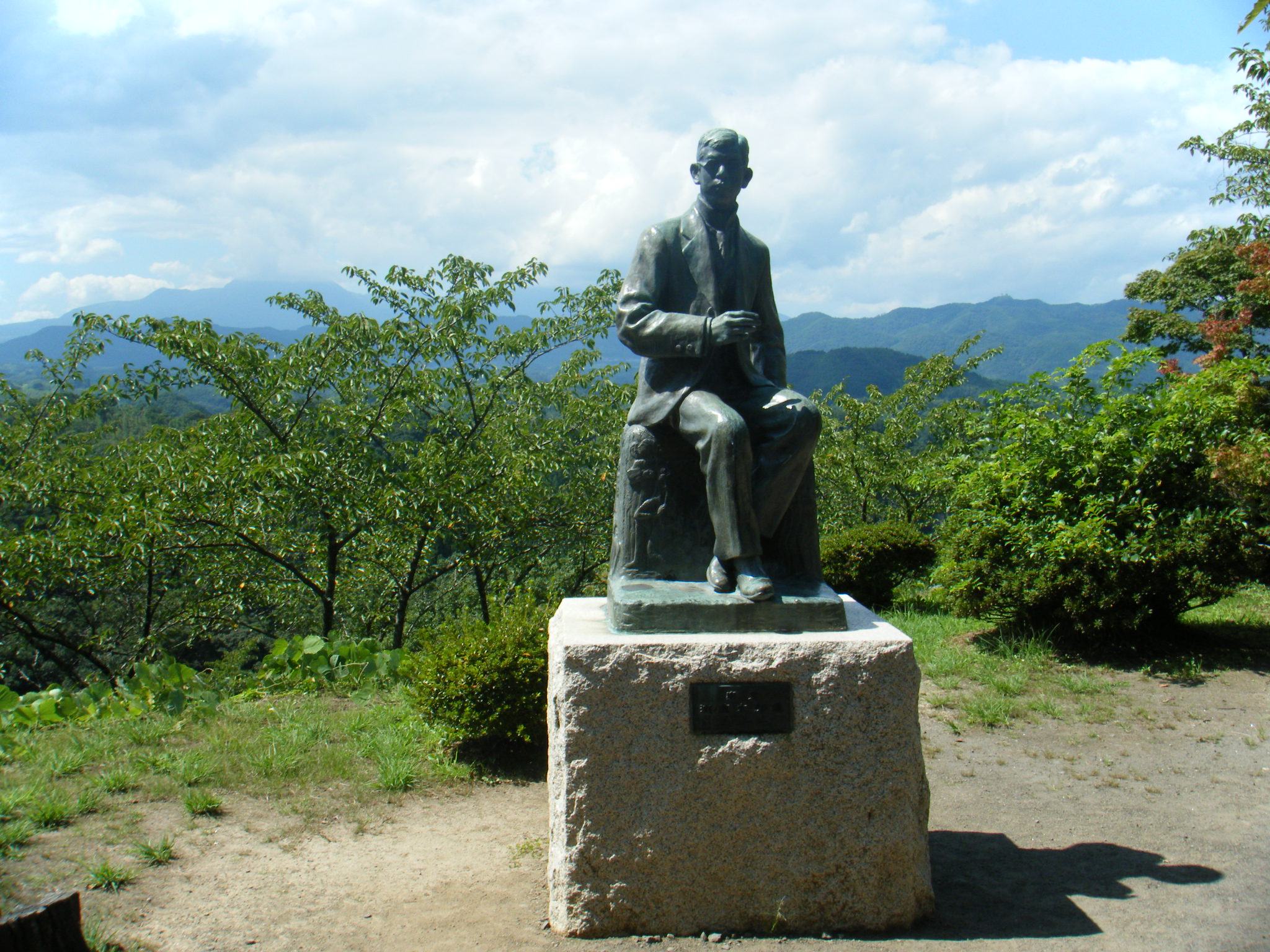 Statue of Taki Rentaro at the ruins of Oka Castle, Taketa City, Oita, Japan.